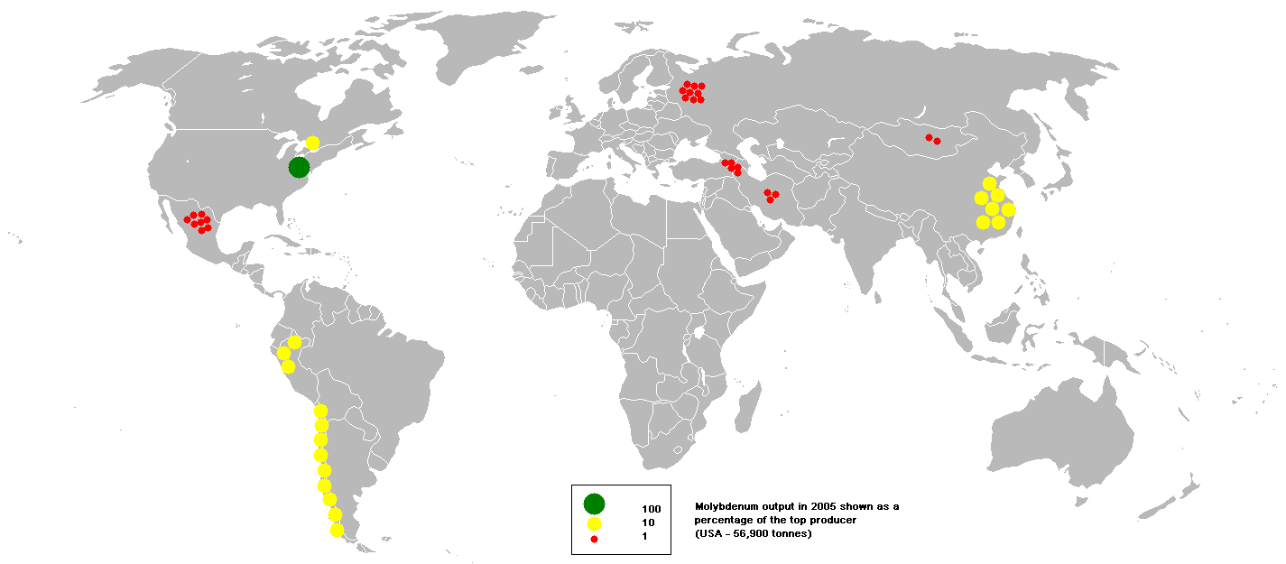 This bubble map shows the global distribution of molybdenum output in 2005 as a percentage of the top producer (USA - 56,900 tonnes). This map is consistent with incomplete set of data too as long as the top producer is known. It resolves the accessibility issues faced by colour-coded maps that may not be properly rendered in old computer screens. Data was extracted on 31st May 2007. Source - Based on :Image:BlankMap-World.png